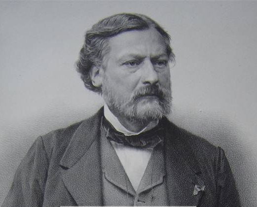 The French painter, Alexandre Bida (1813–1895)